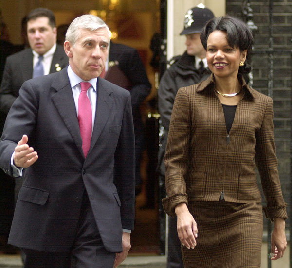 Condoleezza Rice with Jack Straw.